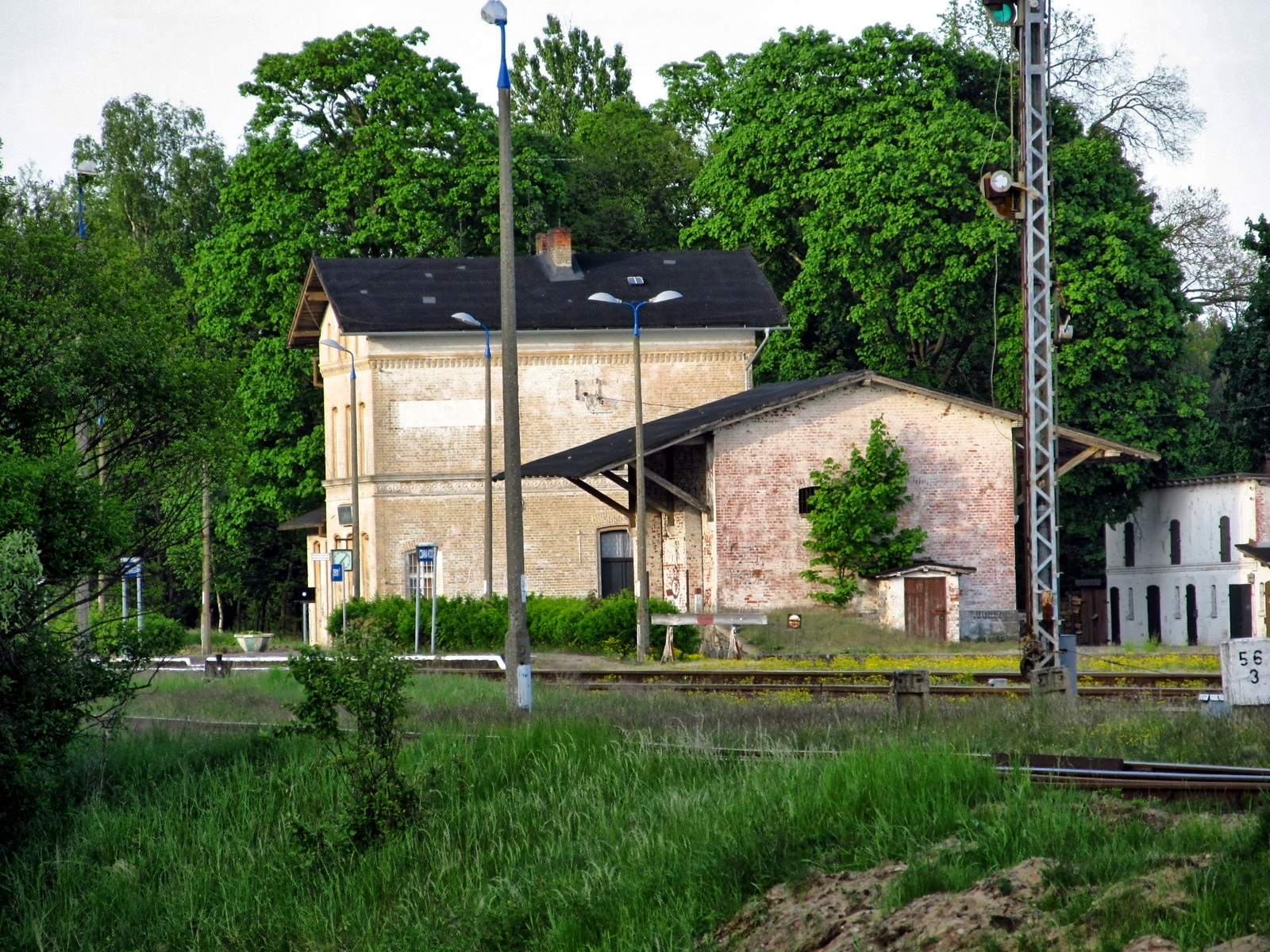 Czarna Woda train station